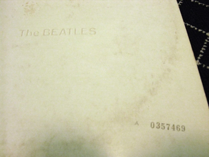 picture showing embossing and serial number on an original pressing of the beatle's self titled album